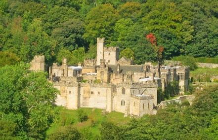 Haddon Hall, Bakewell, Derbyshire, England.